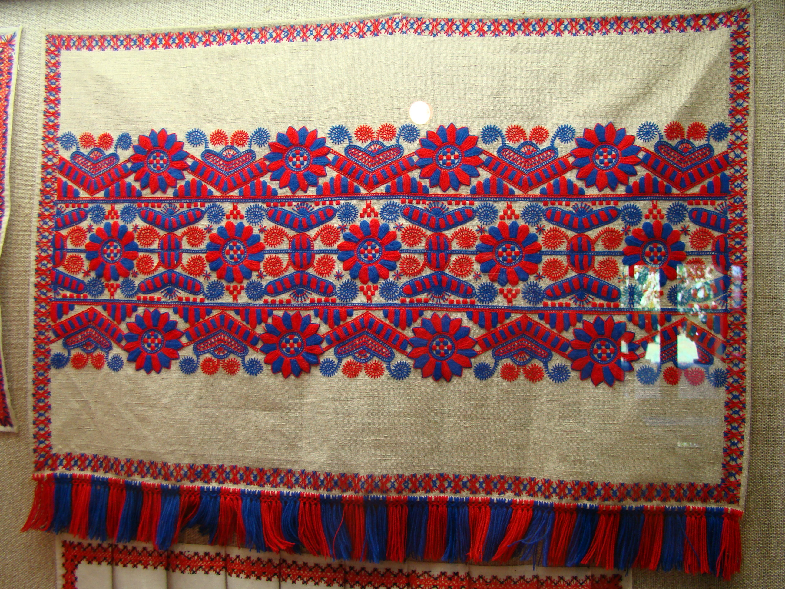 Image result for buzsáki hímzés free images